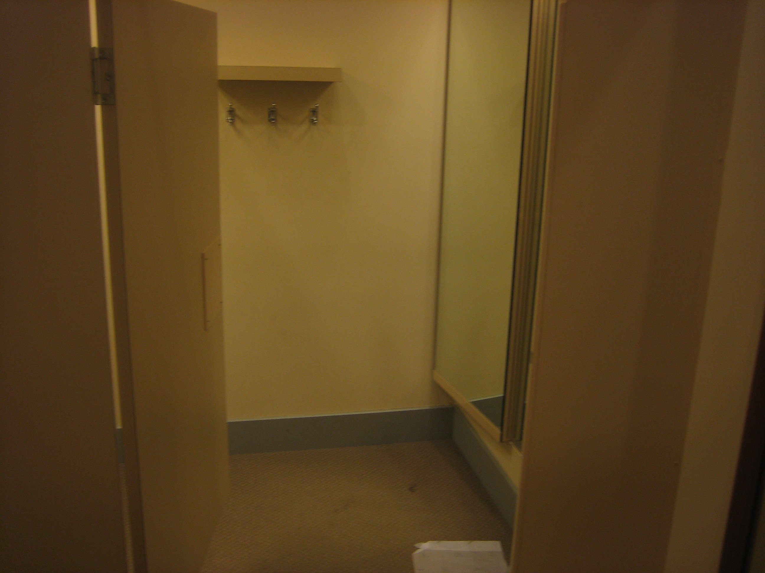 Changeroom picture, found on